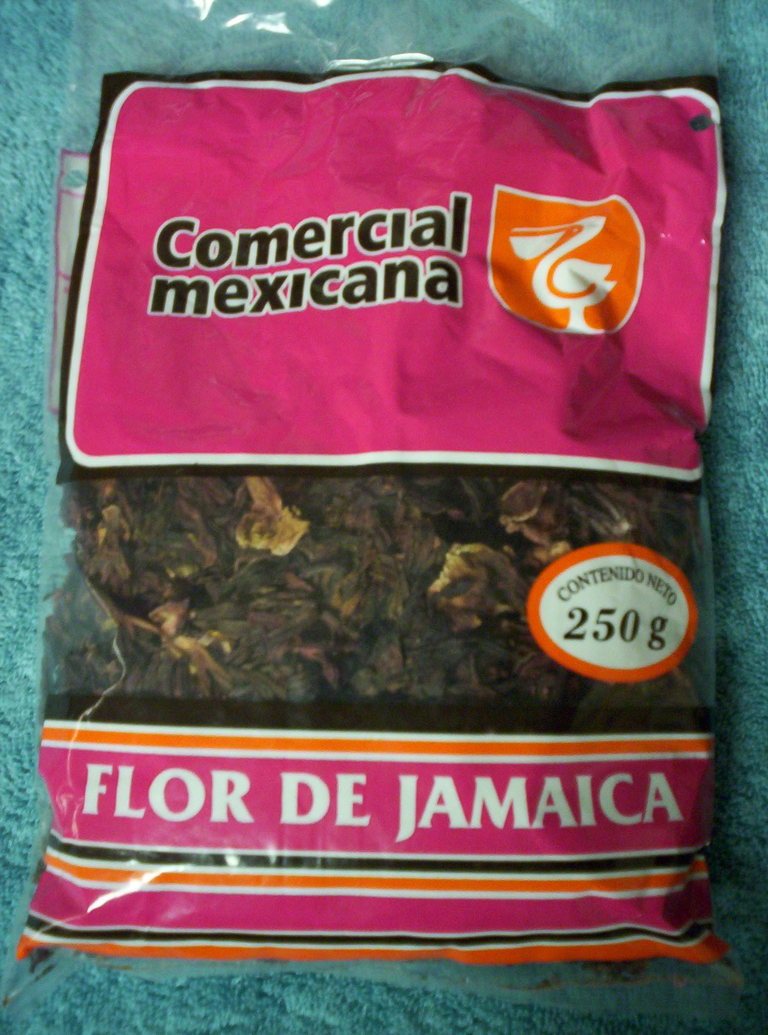 Bag of Flor de Jamaica by Comercial Mexicana Photo taken February 2006 by Tetraminoe 02:55, 2 February 2006 (UTC) Copyright © 2006 by Gavin Baker. Some rights reserved.